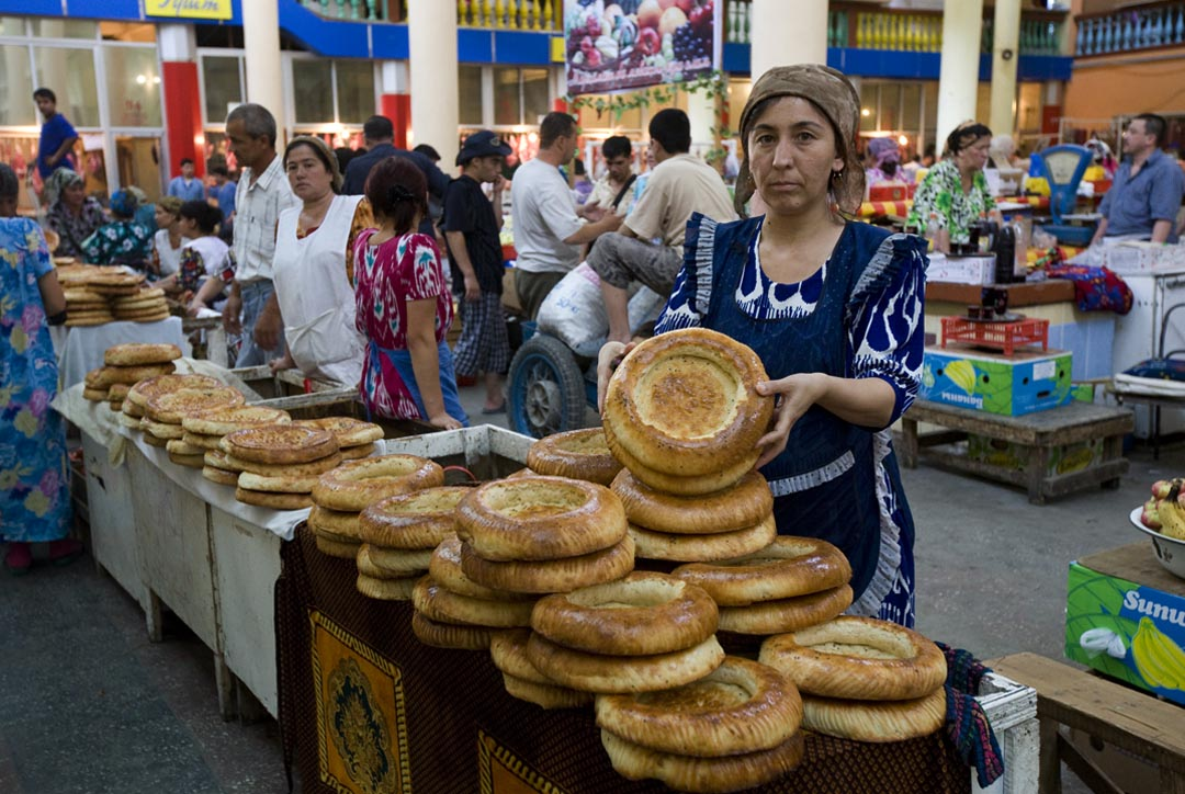 Tajik woman selling bread on a market.